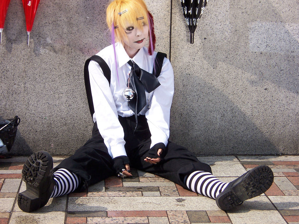 A gothic girl